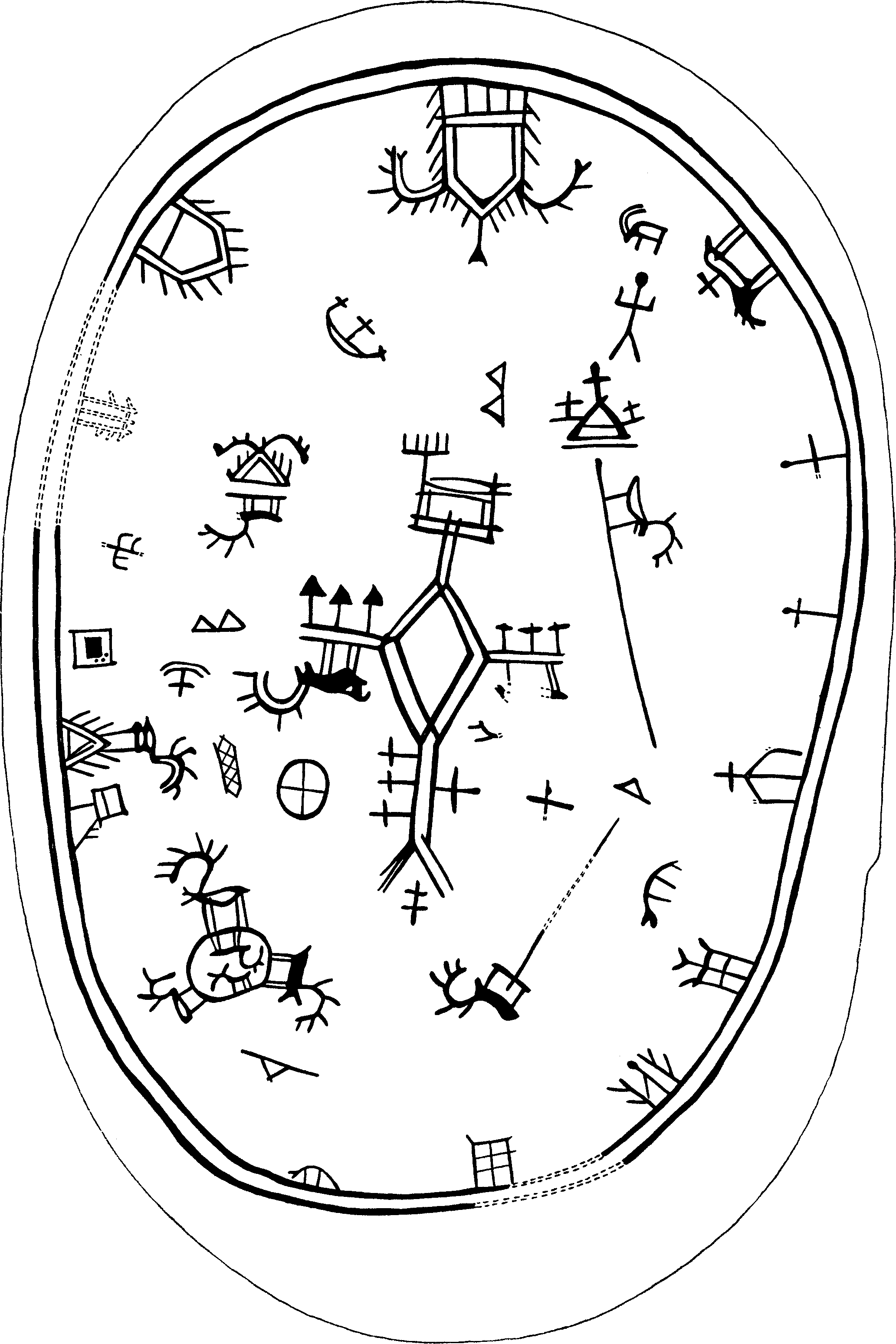 Sami drum, from Åsele Lappmark. Frame drum. 52 x 35 cm. No 26 in Ernst Manker's Die lappische Zaubertrommel (1938/1950). Confiscated by the bishop of Härnosand Petrus Asp during his visitation in Åsele new years day, january 1725. A total of 26 drums were confiscated that day and given to the Antiquitätsarchiv in Stockholm. According to writings on drum owned by Jon wed Kloni. Now owned by SHM (SHM 360.28); kept at Nordiska Museet, Stockholm